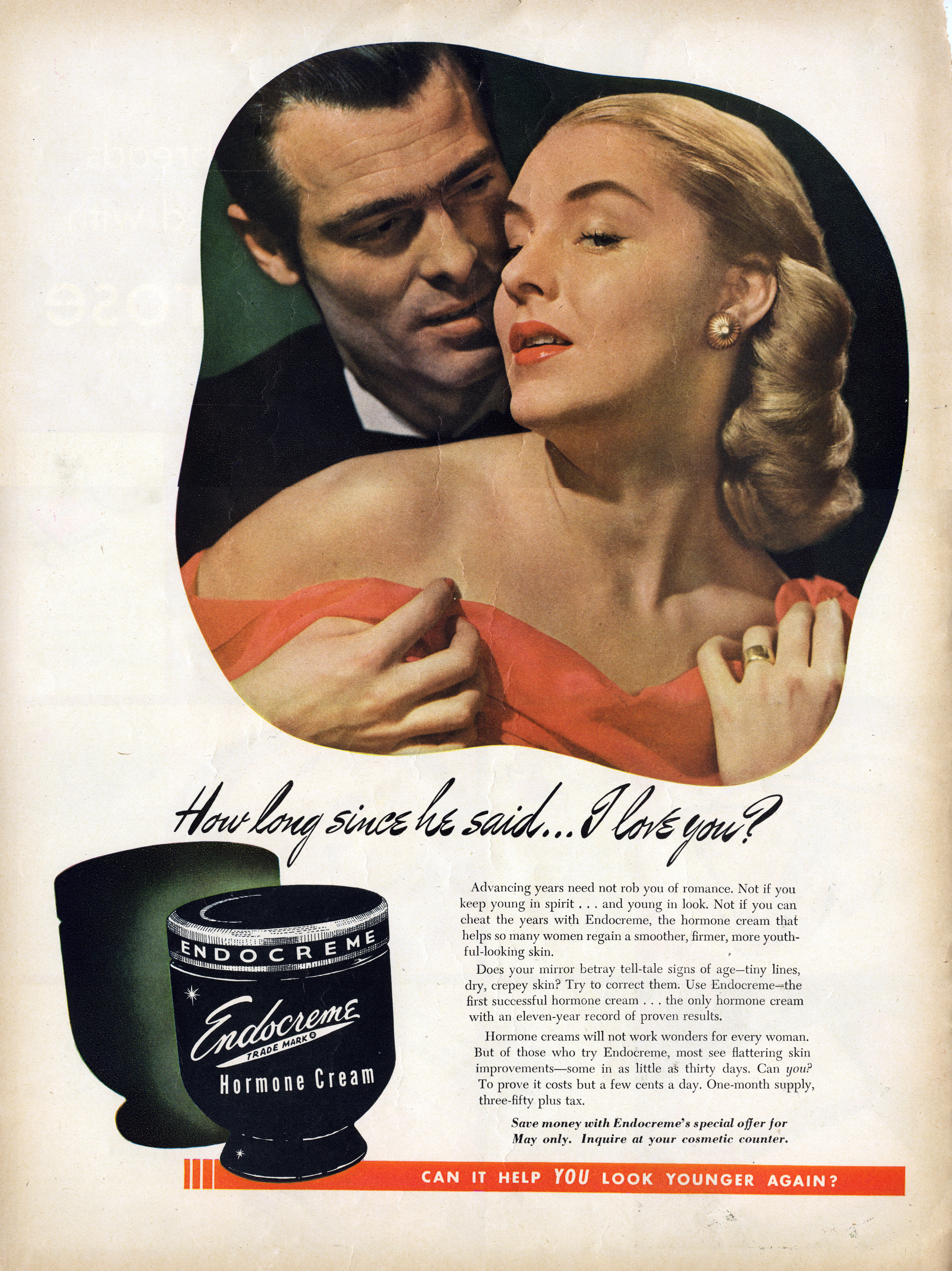 The manufacturers of this estradiol-containing cosmetic sued the AMA over its 1938 report, “Endocreme: A Cosmetic with a Menace.” An independent investigation by FDA—which was not assigned control over advertising of any product until 1962—found insufficient evidence to take action based on the contents or labeling of the product itself. For more information about FDA history visit